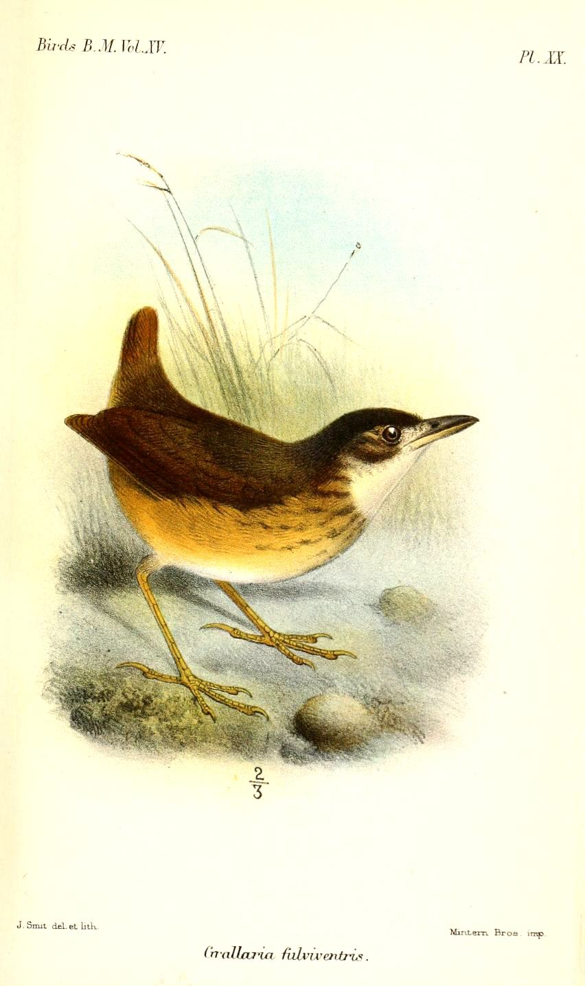 Grallaria fulviventris = Hylopezus fulviventris, White-lored Antpitta